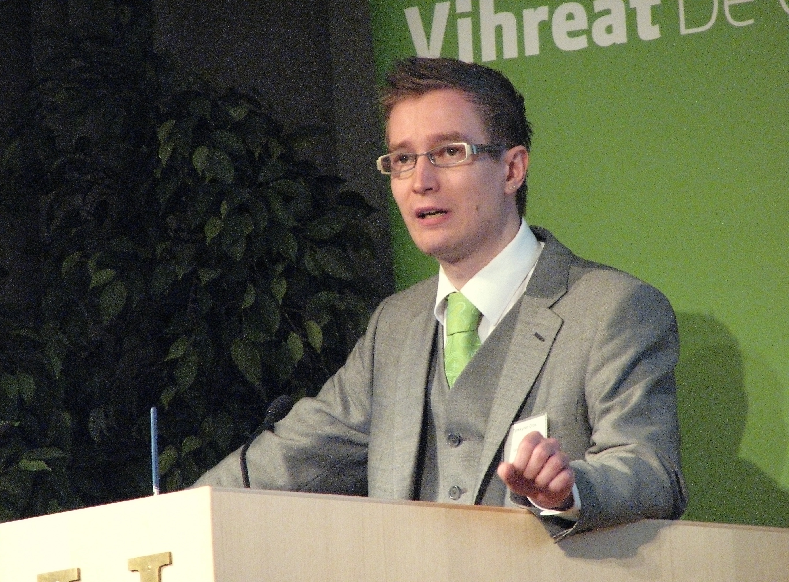 Oras Tynkkynen, a Finnish green politician, giving a speech on global warming.